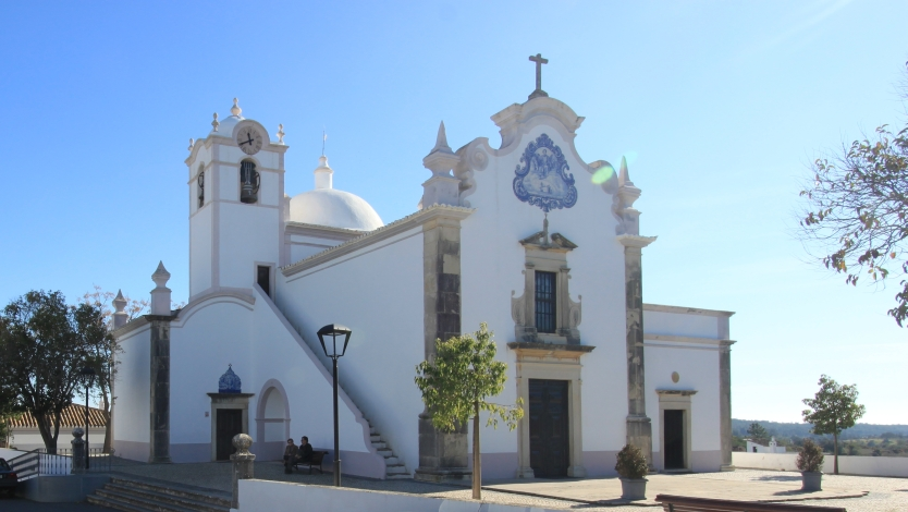 Church São Lourenço de Matos in Almancil